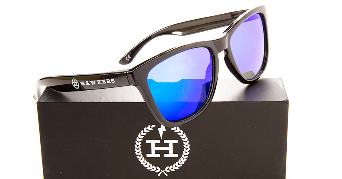 Hawkers Sunglasses